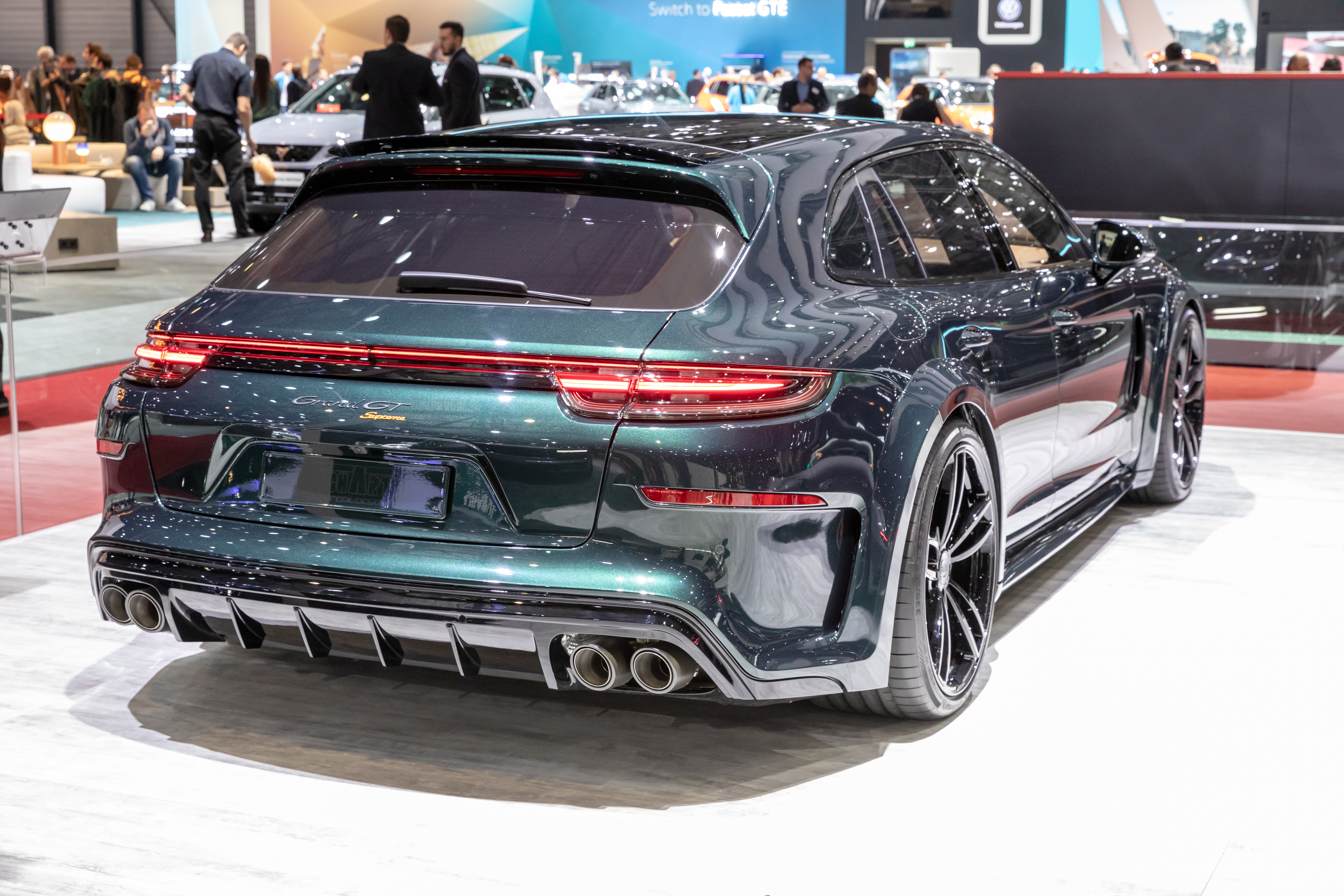 Techart GrandGT Supreme at Geneva International Motor Show 2019, Le Grand-Saconnex